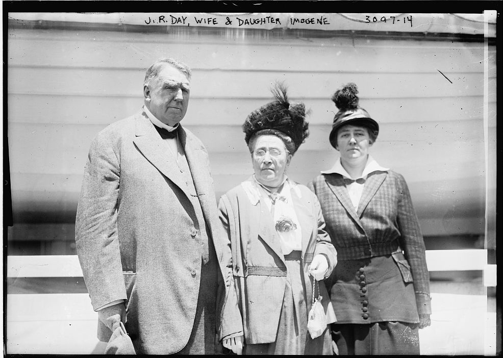 Bain News Service,, publisher. J.R. Day, wife and daughter, Imogene [between ca. 1910 and ca. 1915] 1 negative : glass ; 5 x 7 in. or smaller. Notes: Title from unverified data provided by the Bain News Service on the negatives or caption cards. Forms part of: George Grantham Bain Collection (Library of Congress). Format: Glass negatives. Repository: Library of Congress, Prints and Photographs Division, Washington, D.C. 20540 USA, General information about the Bain Collection is available at Persistent URL: Call Number: LC-B2- 3097-14